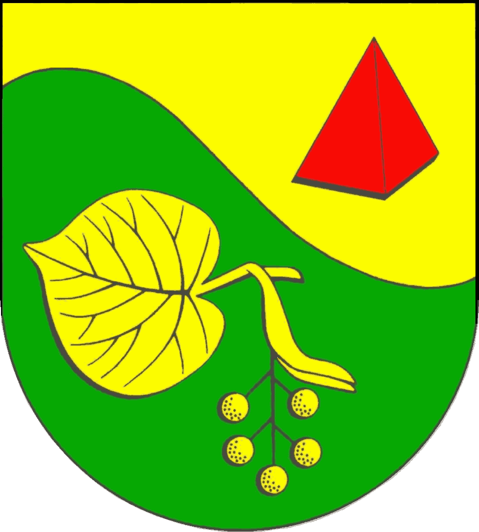 Coat of arms of the municipality Silzen in Schleswig-Holstein, Germany.